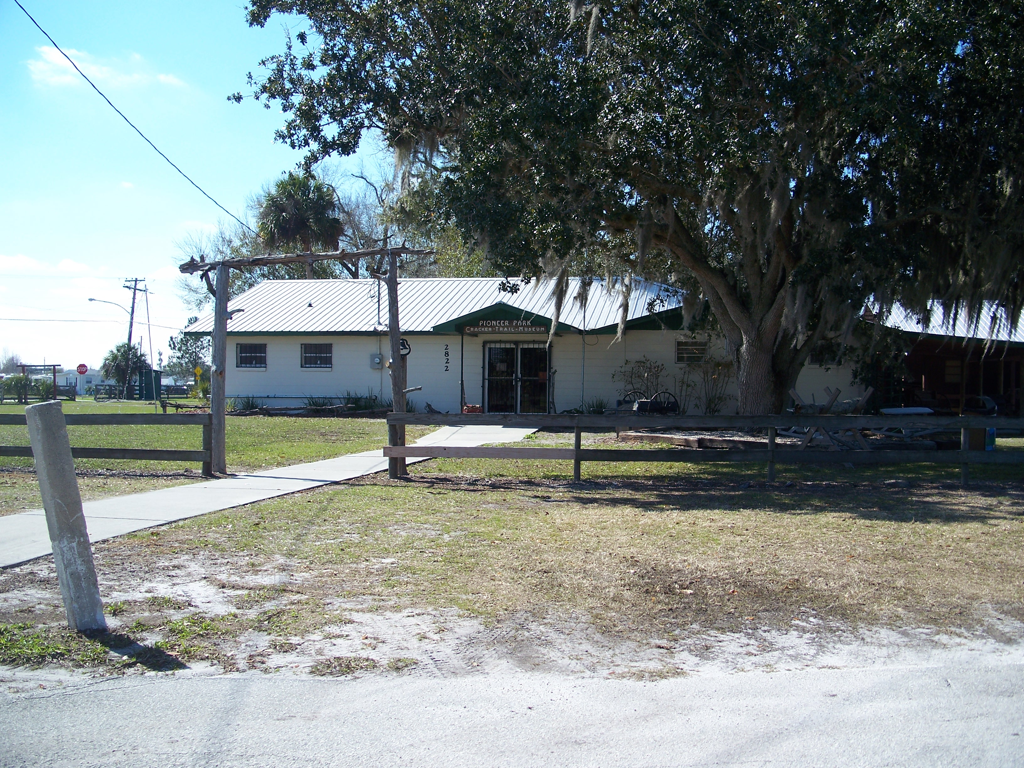 Zolfo Springs, Florida: Cracker Trail Museum, in Pioneer Park. The park itself is listed in A Guide to Florida's Historic Architecture.